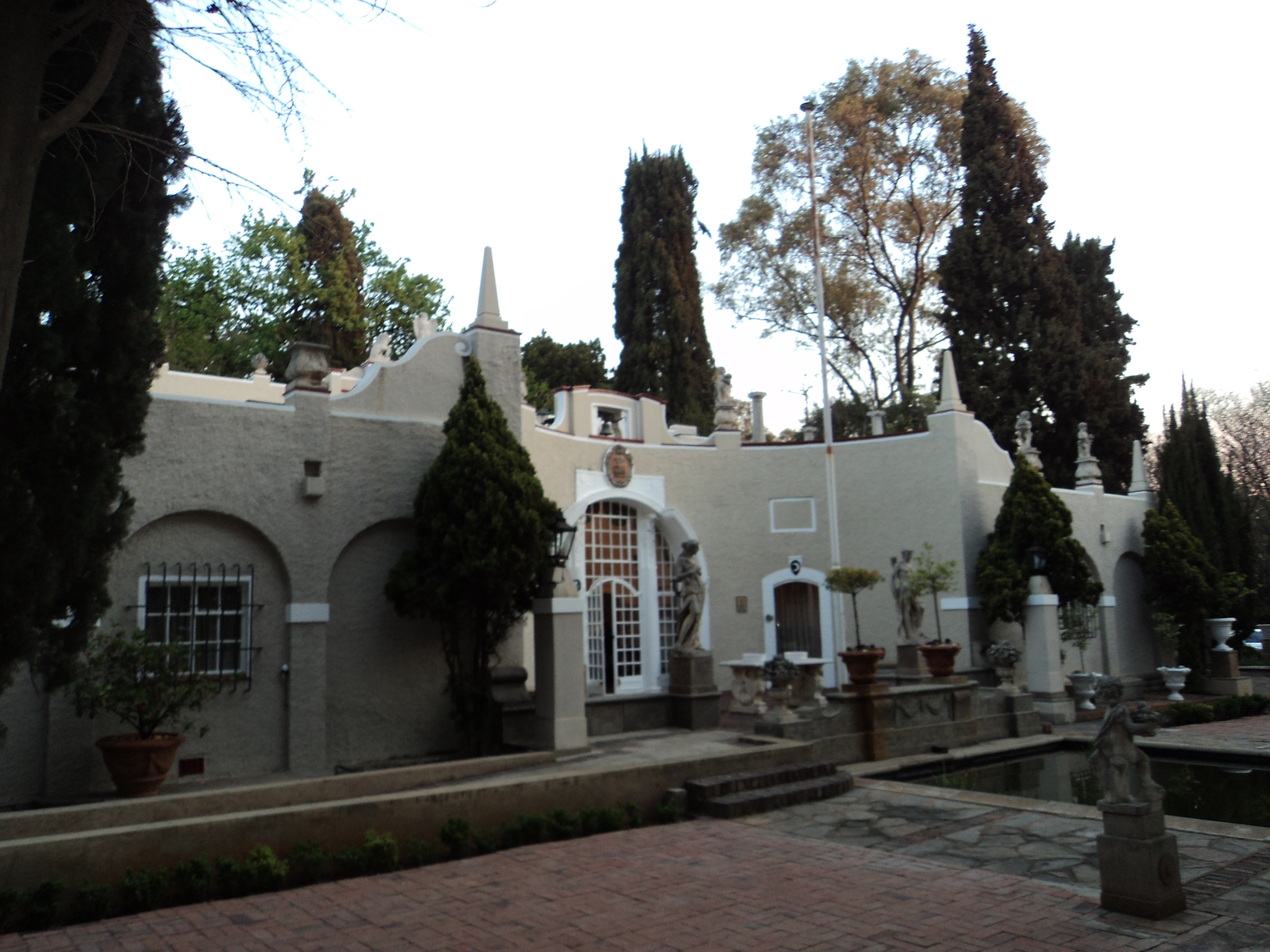 Villa D'Este, 82 Jan Smuts Avenue, Saxonwold, Johannesburg This media shows a South African Protected Site with SAHRA file reference 9/2/228/0121.